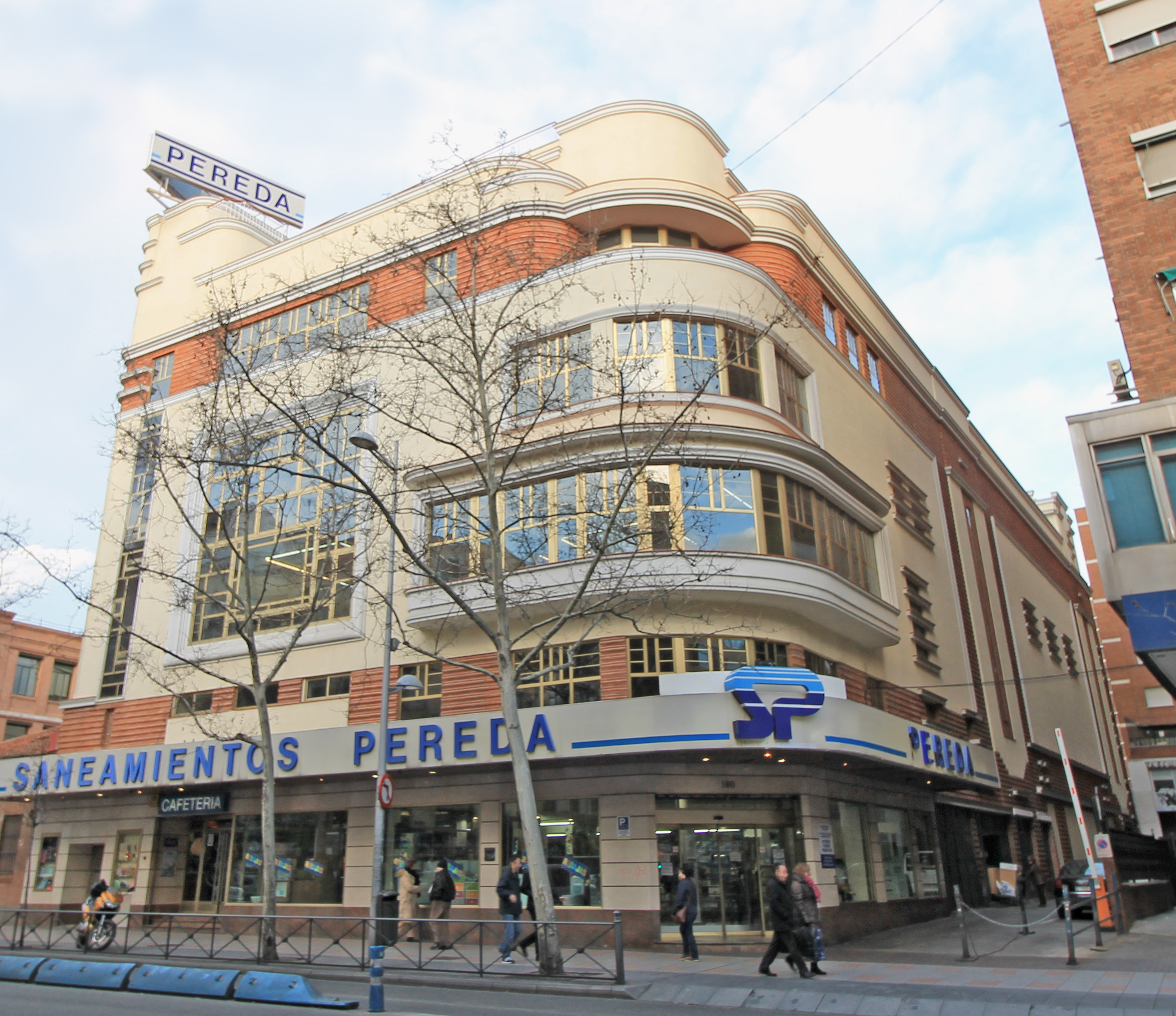 Former Cinema Europa in Madrid (Spain).